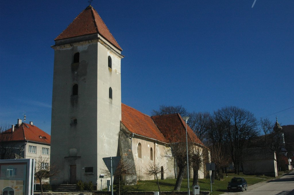 Vrbovce, Myjava District, Slovakia.